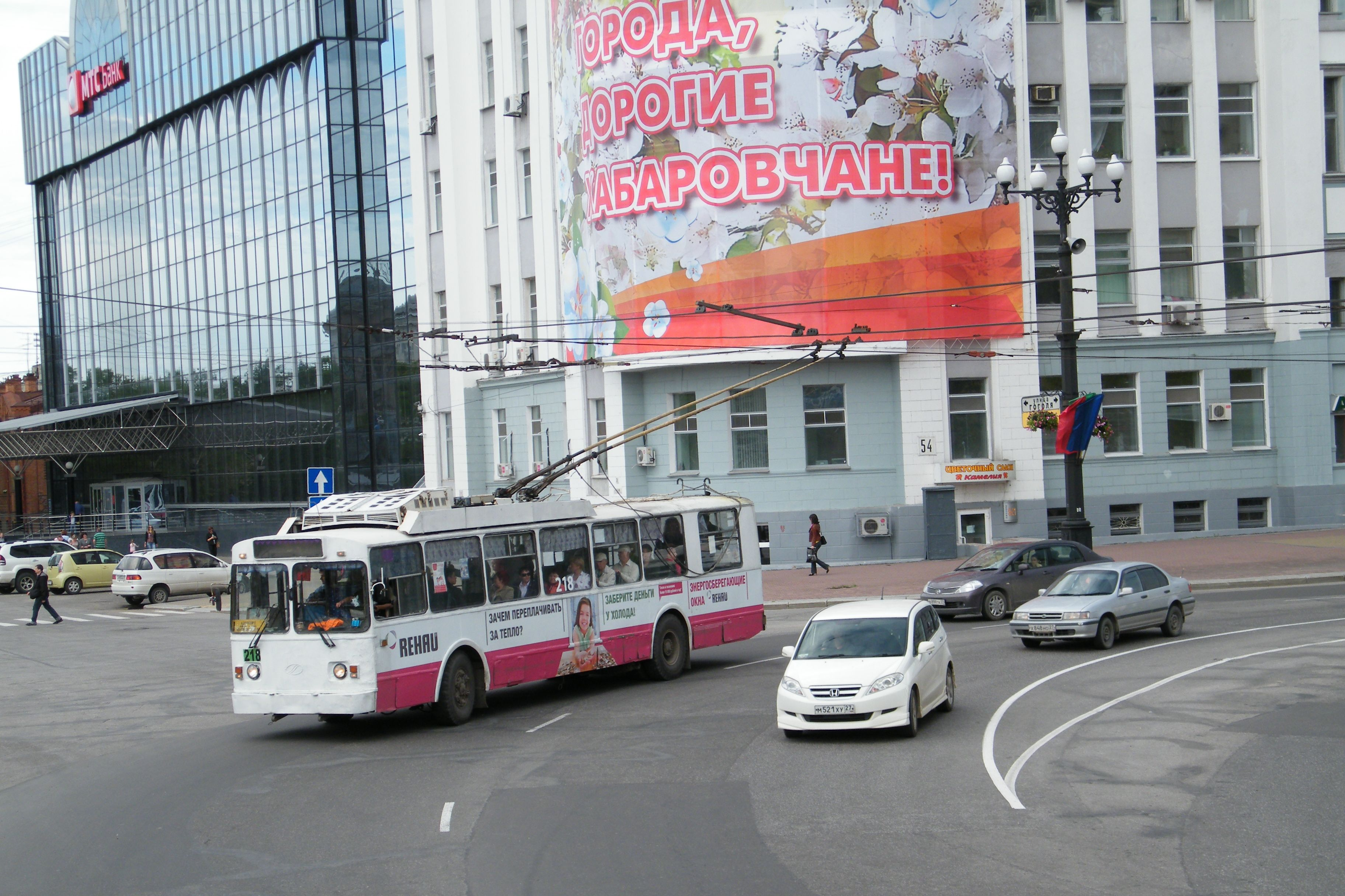 Trolleybuses in Khabarovsk